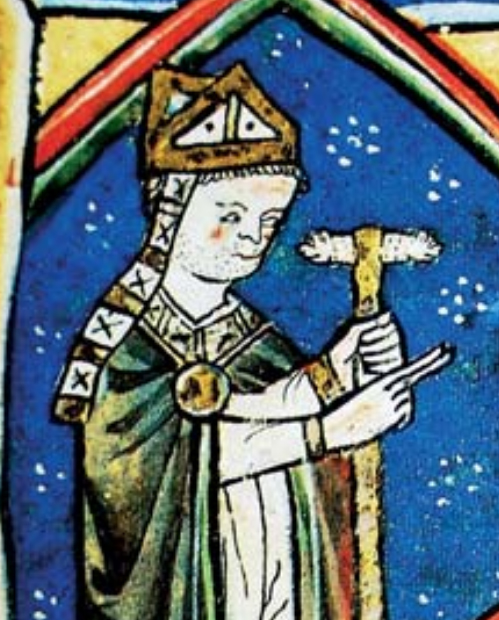 Romanesque Medieval Miniature of Didacus Gelmirici, from the illuminated manuscript of the Tumbo de Toxosoutos (Galicia), 13th century.